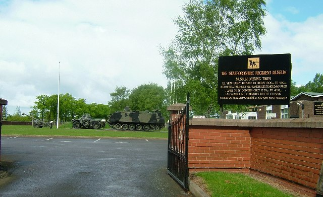 Army Museum. The Staffordshire Regimental Museum at Whittington.